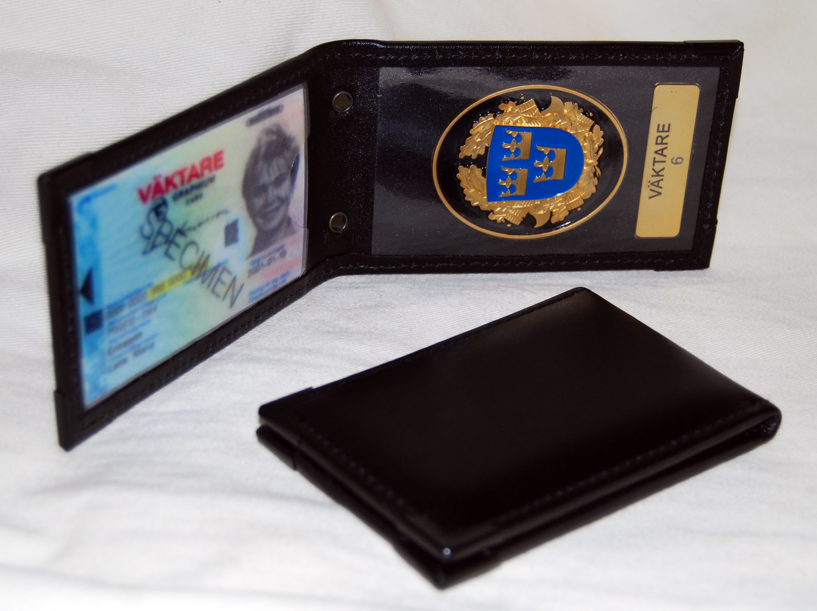 This is a badge for a Swedish guard.